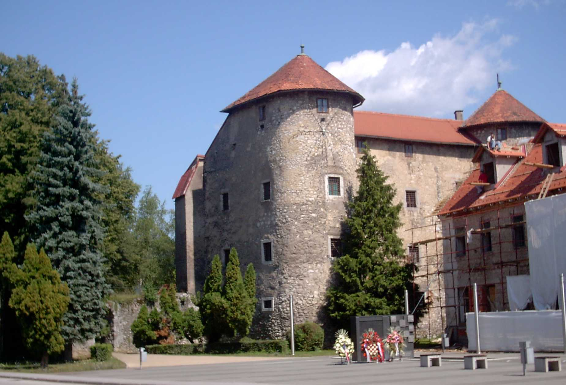 Ogulin castle, Croatia